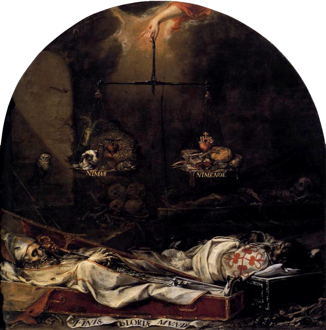 Juan de Valdés Leal, Finis gloriae mundi (1672). Seville, Hospital de la Caridad.